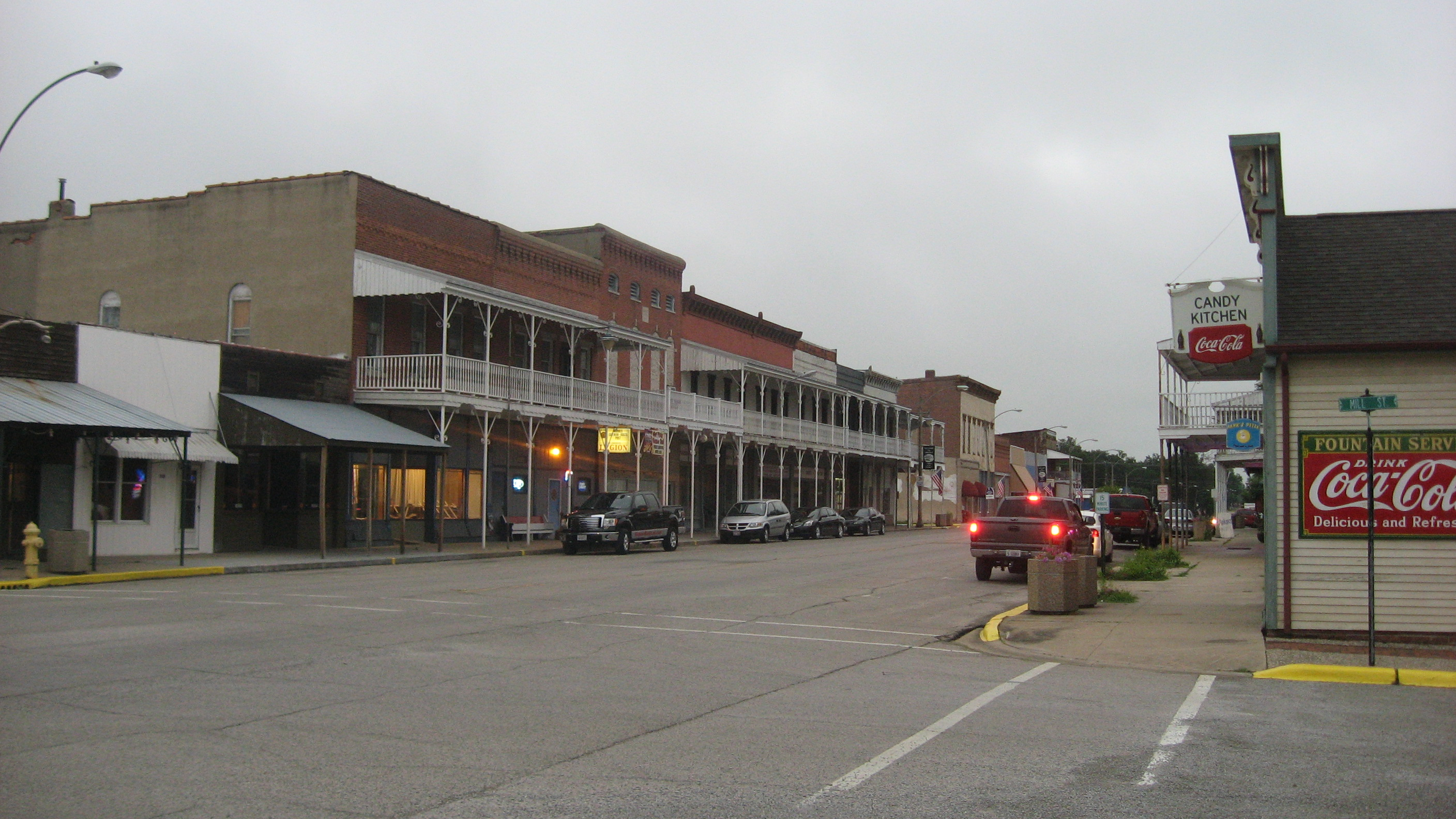 Buildings on the northern side of Cumberland Street (Illinois Route 121) east of Mill Street in downtown Greenup, Illinois, United States. This block is part of the Greenup Commercial Historic District, a historic district that is listed on the National Register of Historic Places.